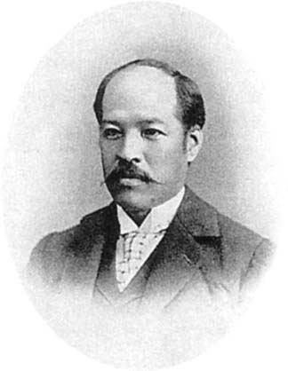 B. Mano, Professor of Mechanical Engineering.